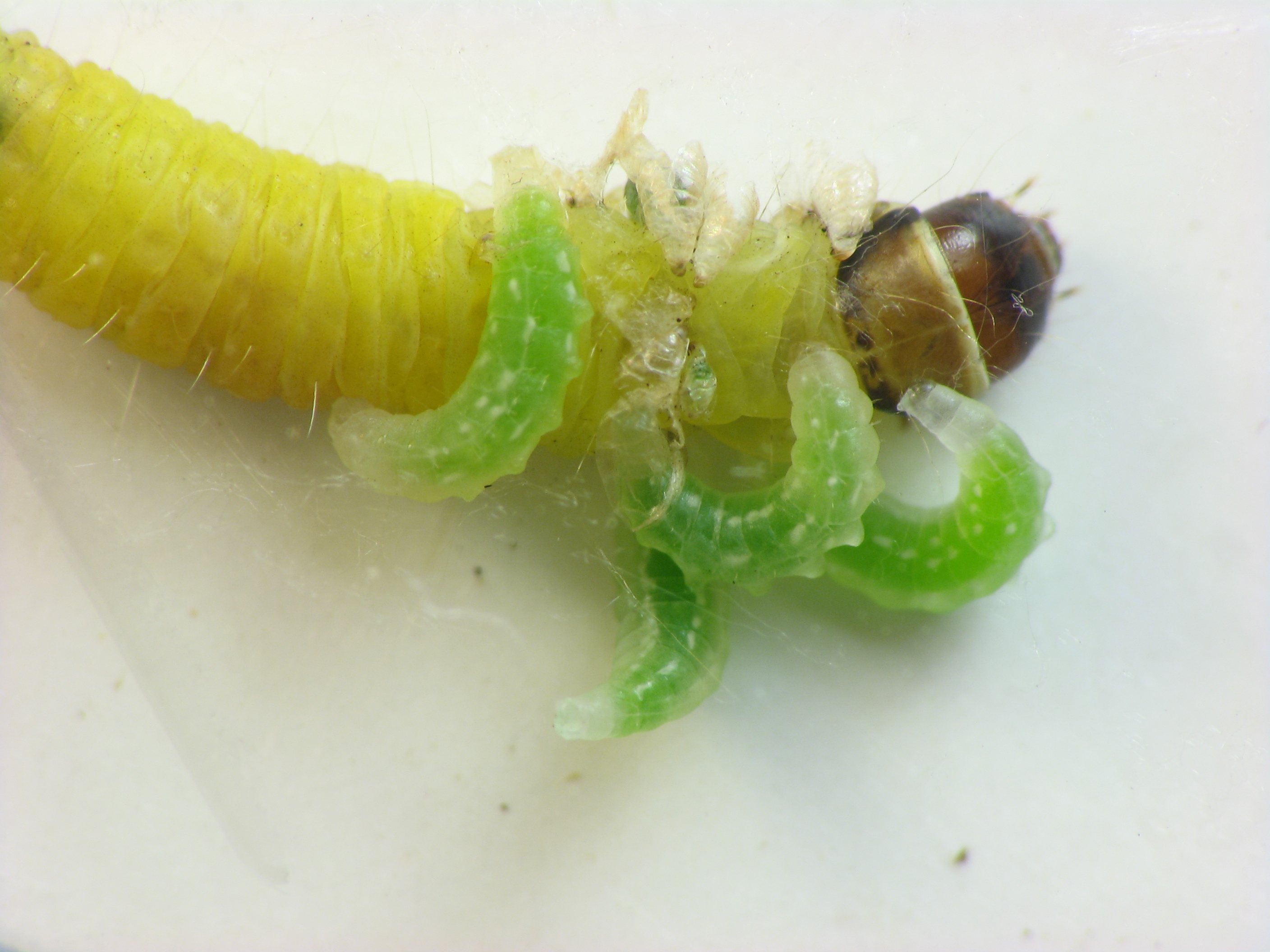 Ichneumonid wasp, Hercus fontinalis, larvae (intermediate instar) on caterpillar. Size: ~ 3-4 mm. Pennypack Restoration Trust, Montgomery County, Pennsylvania, USA.